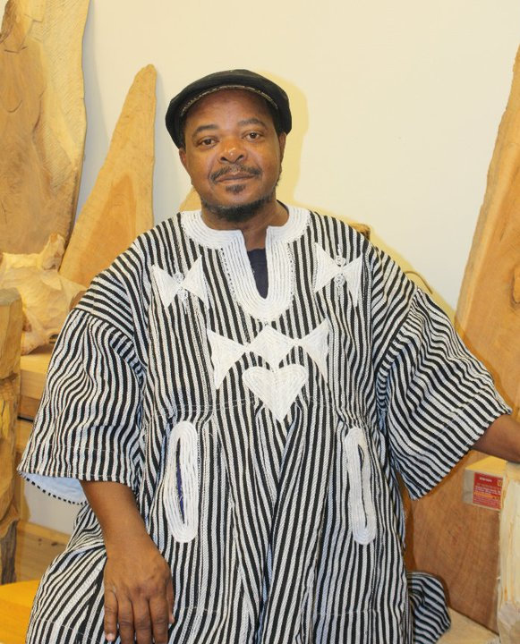 Cephas Yao Agbemenu Teaching at the college in his classroom.